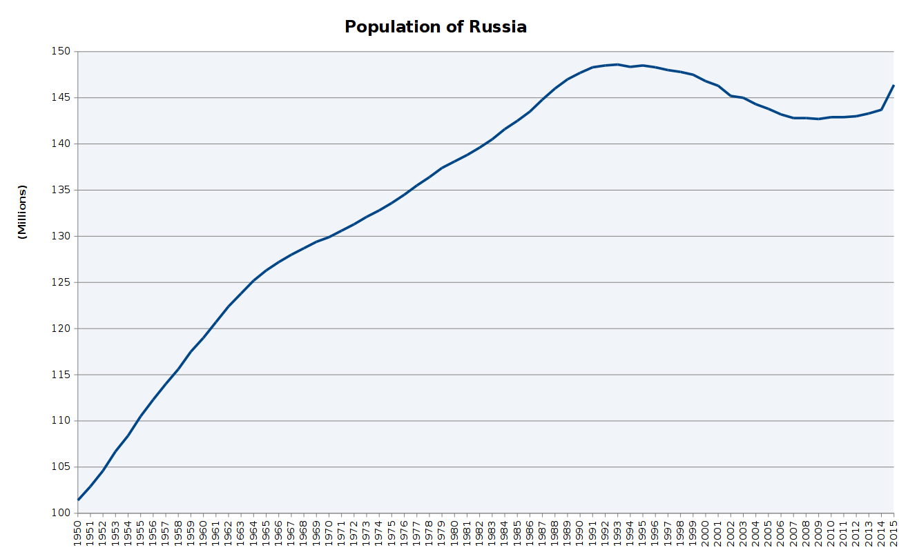 Russia's population (1950-2015).